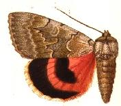 PLATE CXCV.